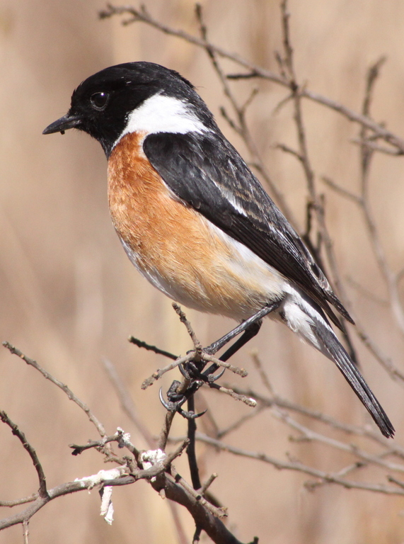 A male African Stonechat Saxicola torquatus at Reitvlei Nature Reserve near Pretoria, South Africa.